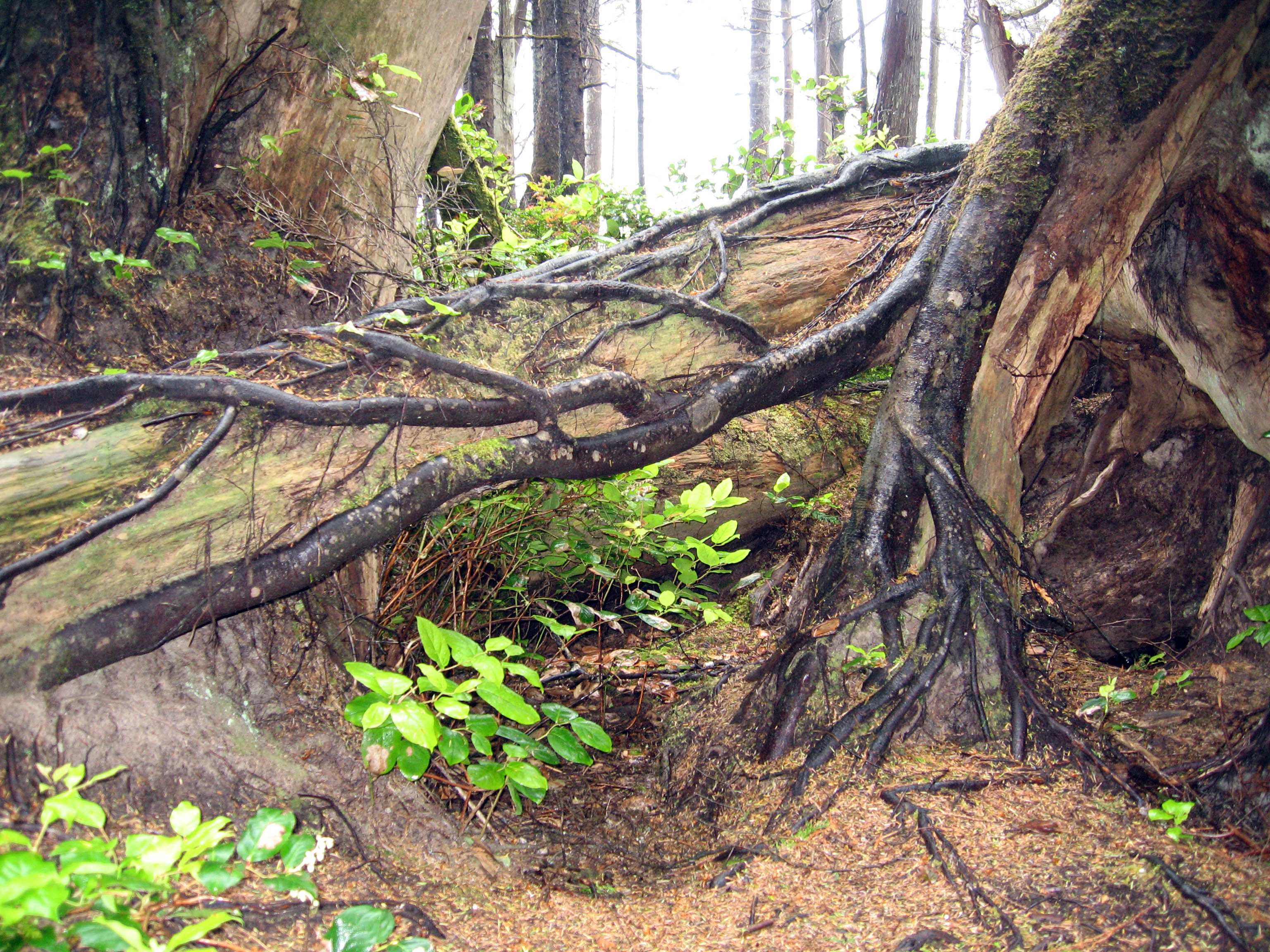 A tree draws nutrients from a rotting trunk in Cape Lookout State Park in Oregon.